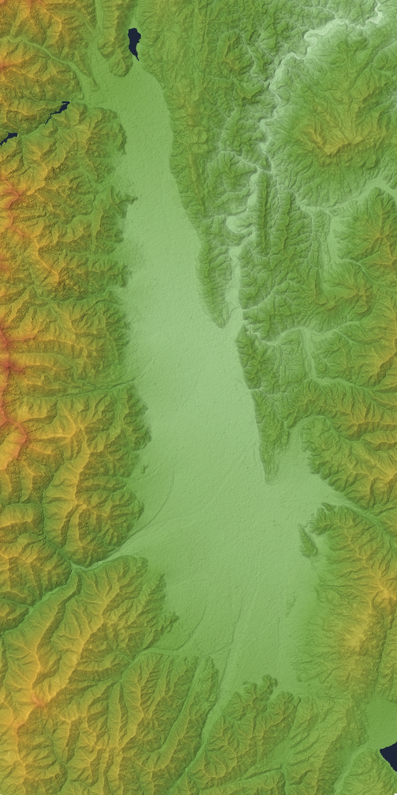 Matsumoto Basin in Nagano Prefecture, Honshu, Japan.